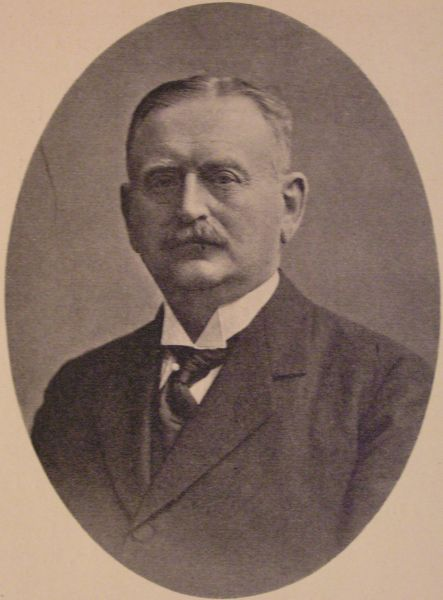 Christopher Adam Valdemar Knuth (1855-1942), Danish Count, estate owner, and politician, MP